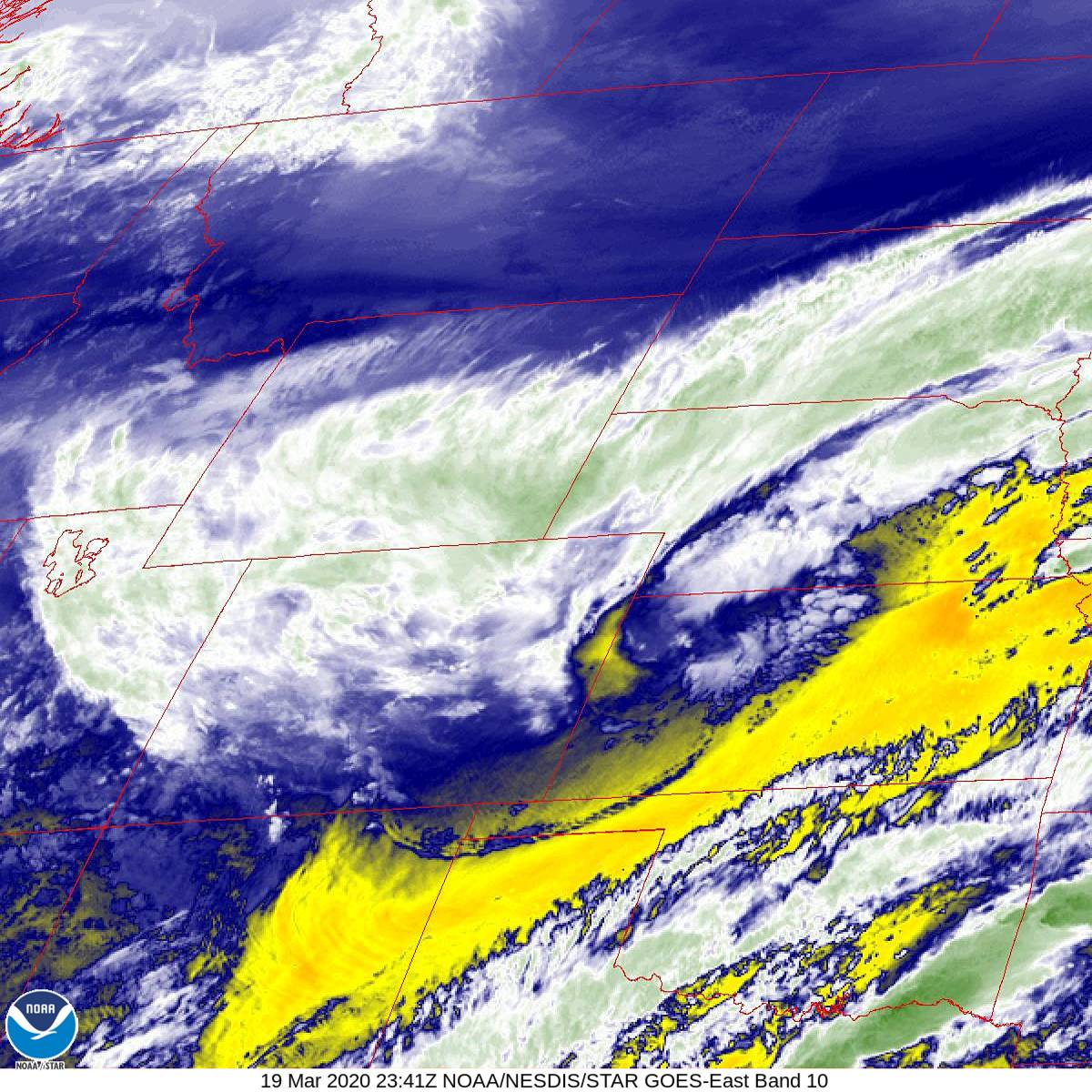 GOES 16 satellite image of low level water vapor over the Northern Rocky Mountains as an extratropical storm brings blizzard conditions to the region March 19, 2020